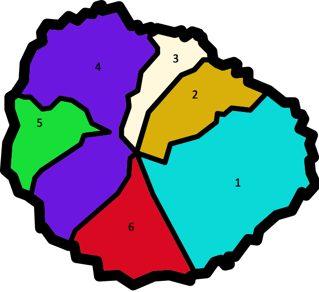 Municipalities of La Gomera, Canary Islands.